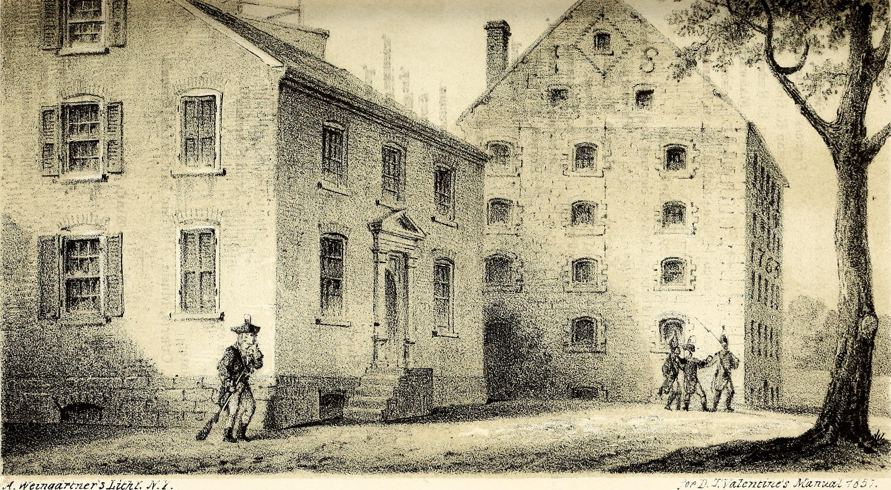 Title: Manual of the corporation of the city of New York Year: 1857 (1850s) Authors:Adam Weingartner (American, active 1851–60) New York (N.Y.). Common Council Willis, Samuel J Valentine, David T. (David Thomas), 1801-1869 Subjects: Publisher: New York Text Appearing Before Image: Text Appearing After Image: A. Weingartner's Lithy. N.Y. - Rhinelander's Sugar House & Residence, between William & Rose Streets. The last of the Sugar House & Prison of the Revolution for D. Valentine's Manual 1857. - (Sugar house prisons in New York City).